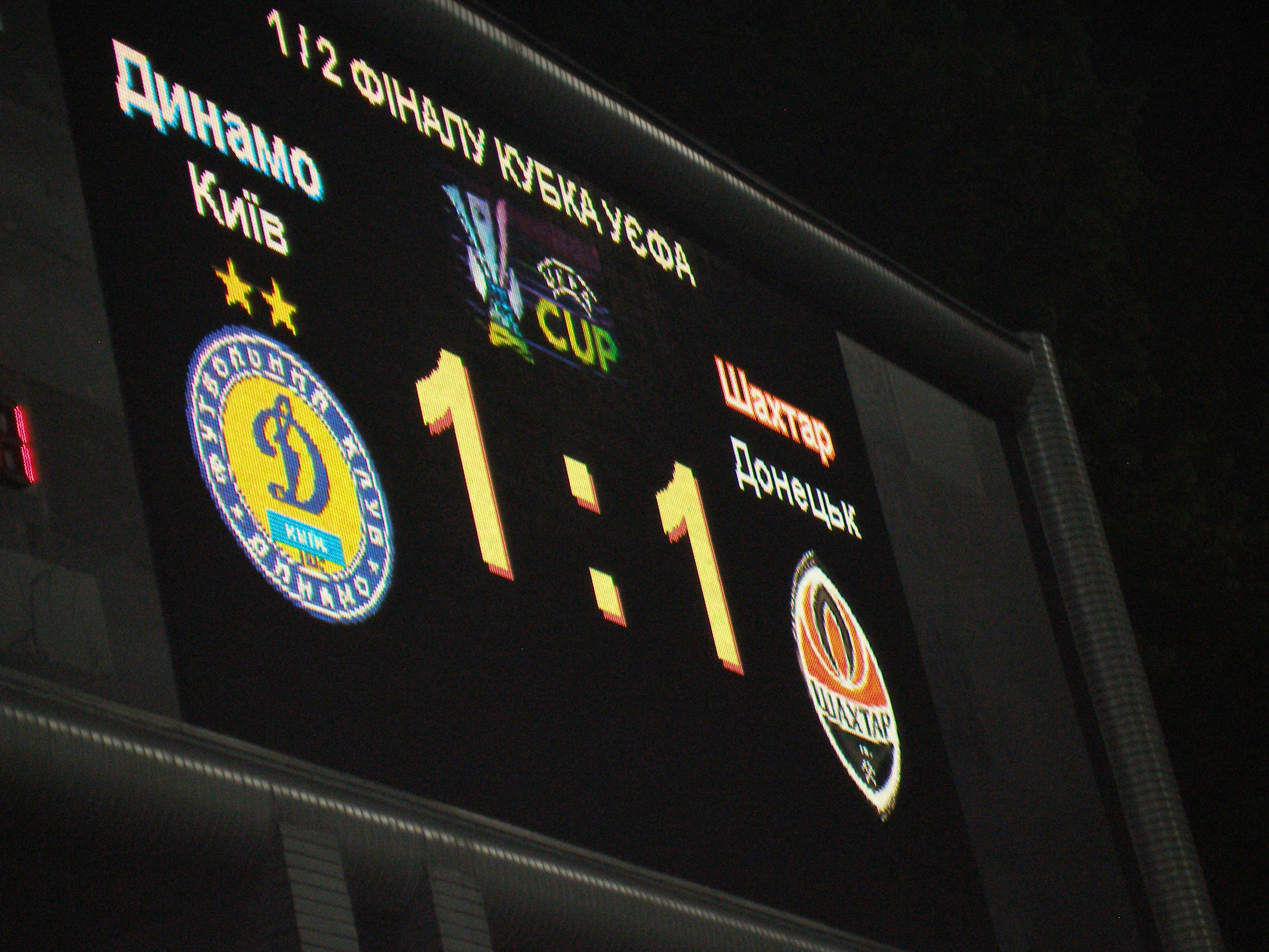 UEFA Cup Semifinal in Kiev. Score